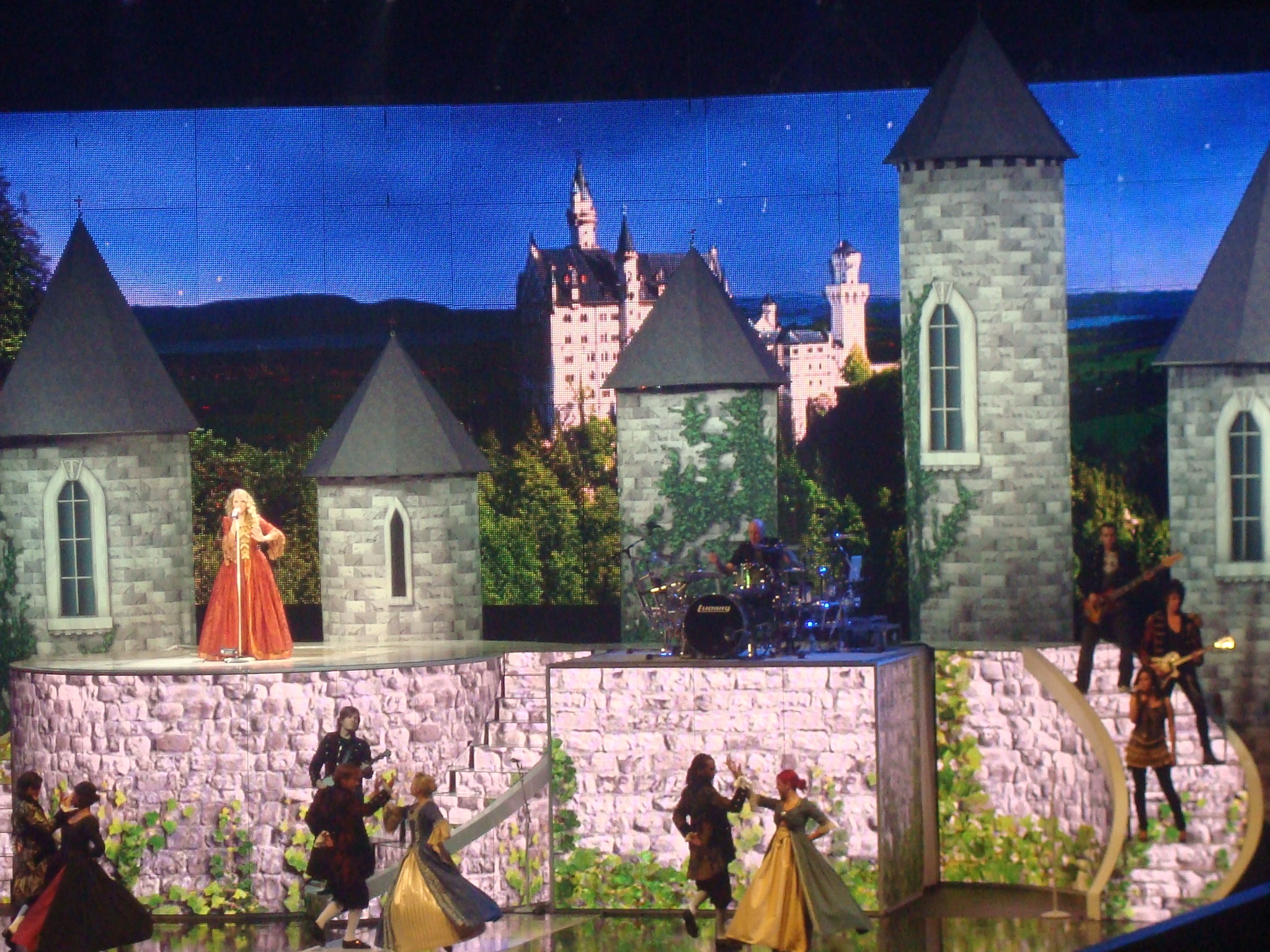 Country pop singer Taylor Swift singing on her Fearless Tour in Austin, Texas.